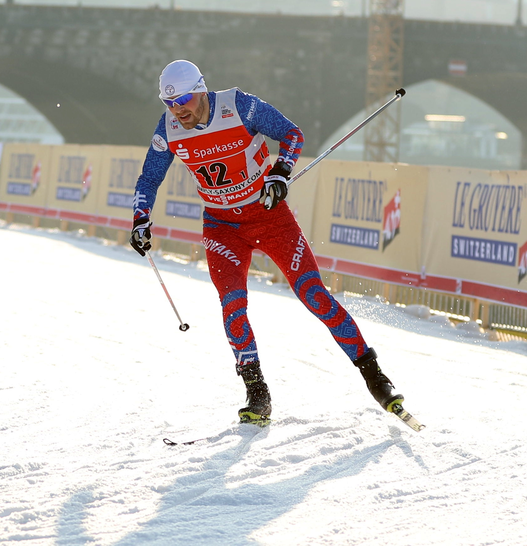 Mens Team Sprint (Semifinal) at the FIS Cross-Country World Cup Dresden 2018: Andrej Segec